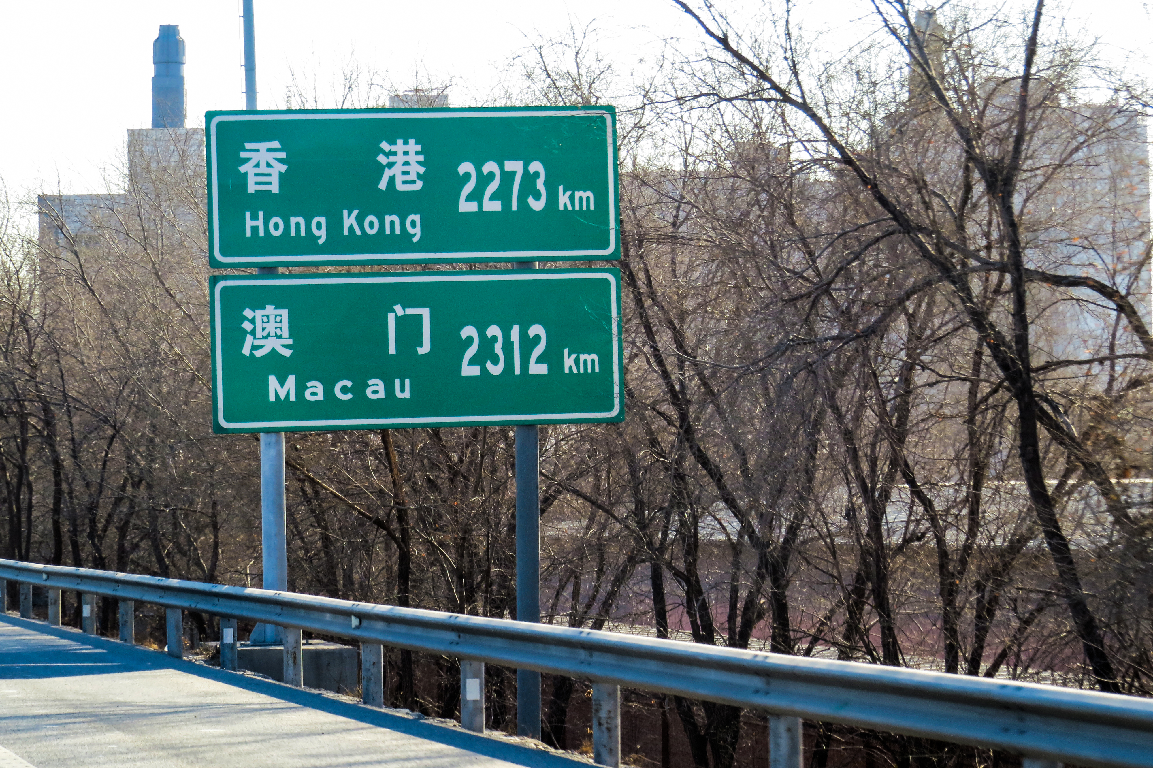 Taken after passing Dujiakan Toll Plaza.